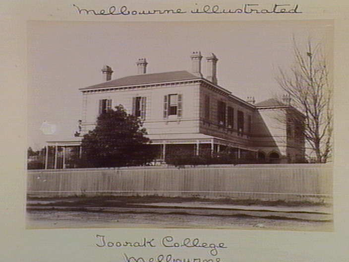 Image title:Toorak College, Melbourne picture Description: Building of Toorak College, Mt Eliza, 1889.